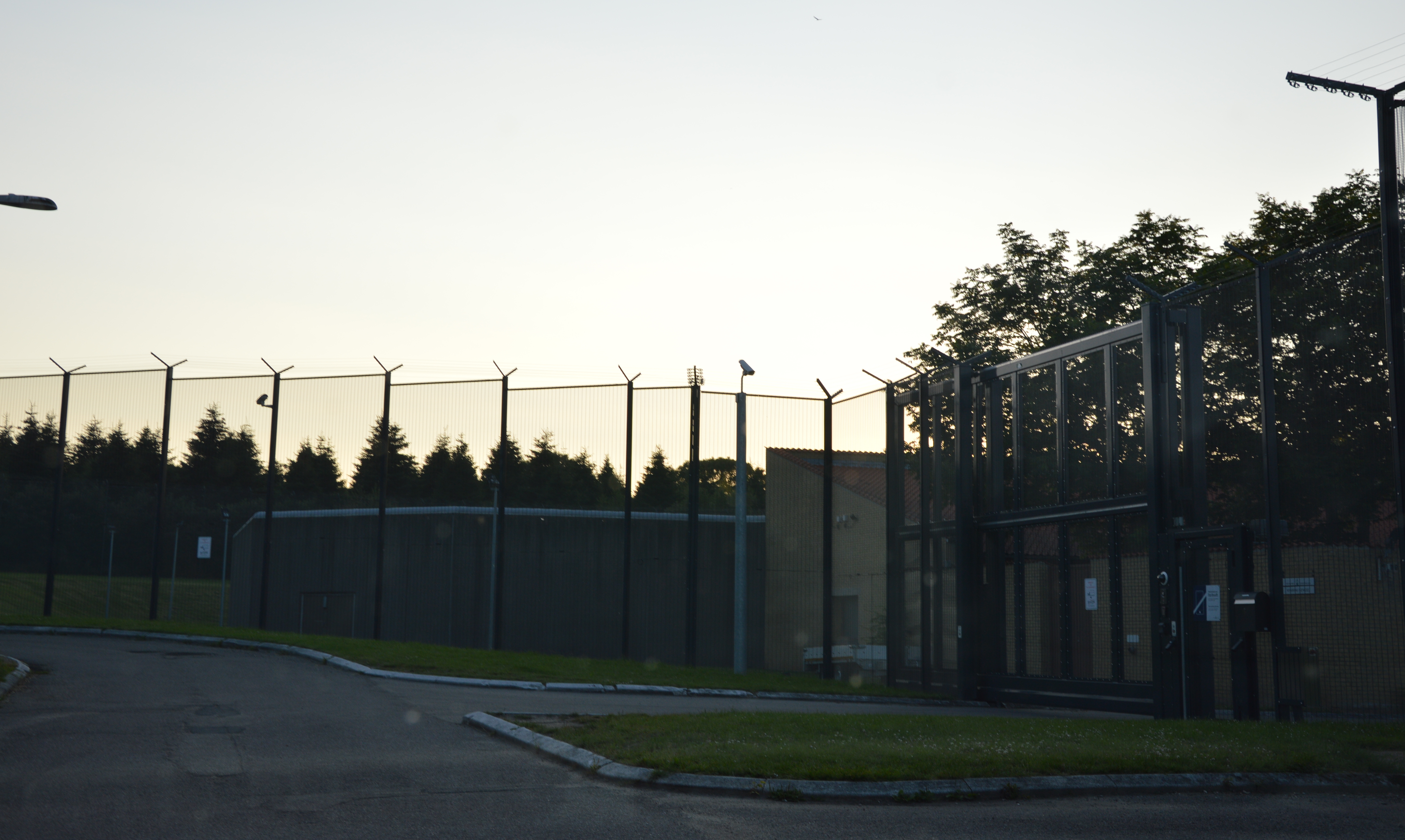 Nykoebing Prison in Nykøbing Sjælland in Denmark is a former psychiatric prison since 1981. In 2018, it was made a "normal" prison.